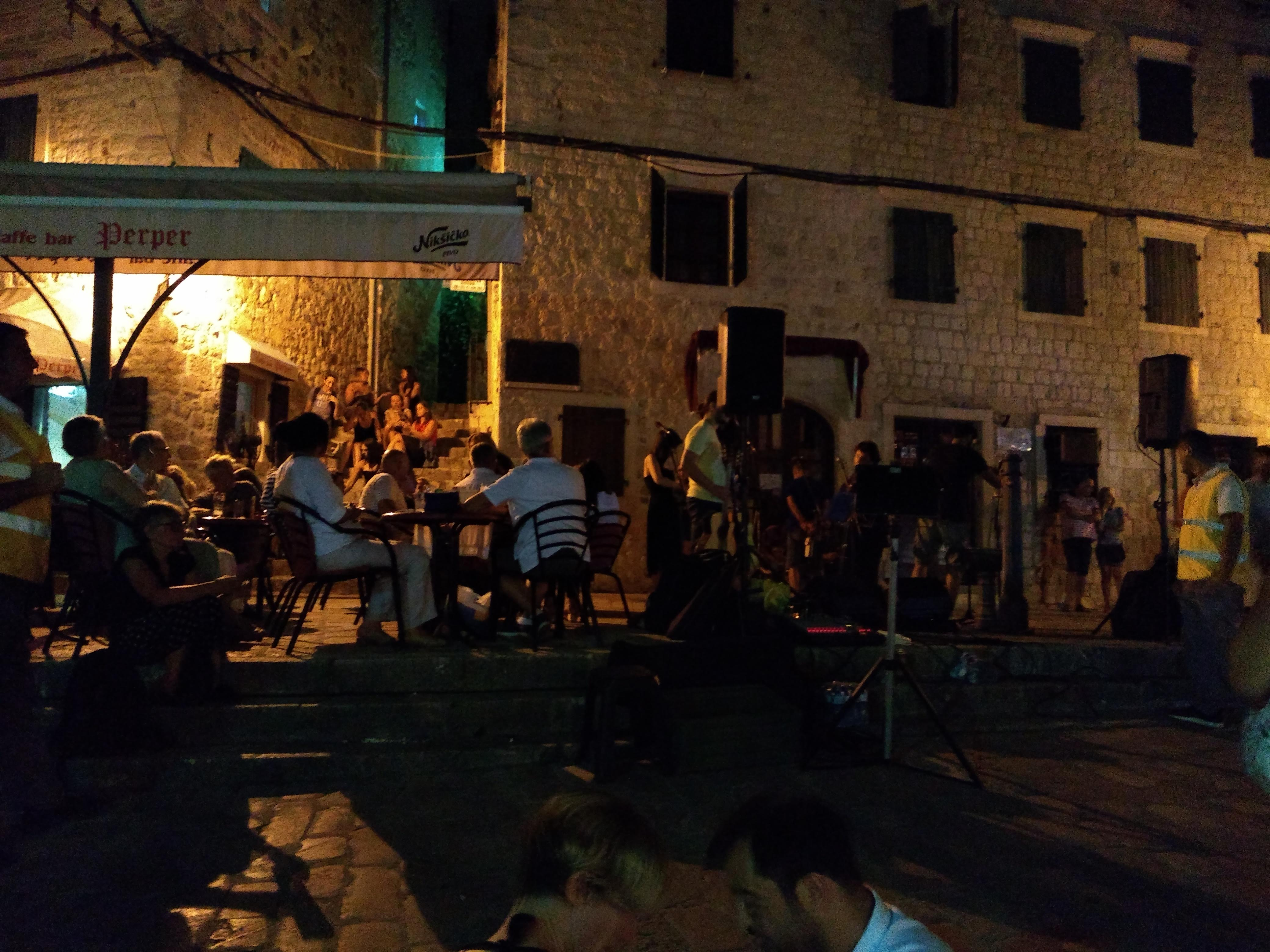 Boka night Festival - after-party in the Old Town